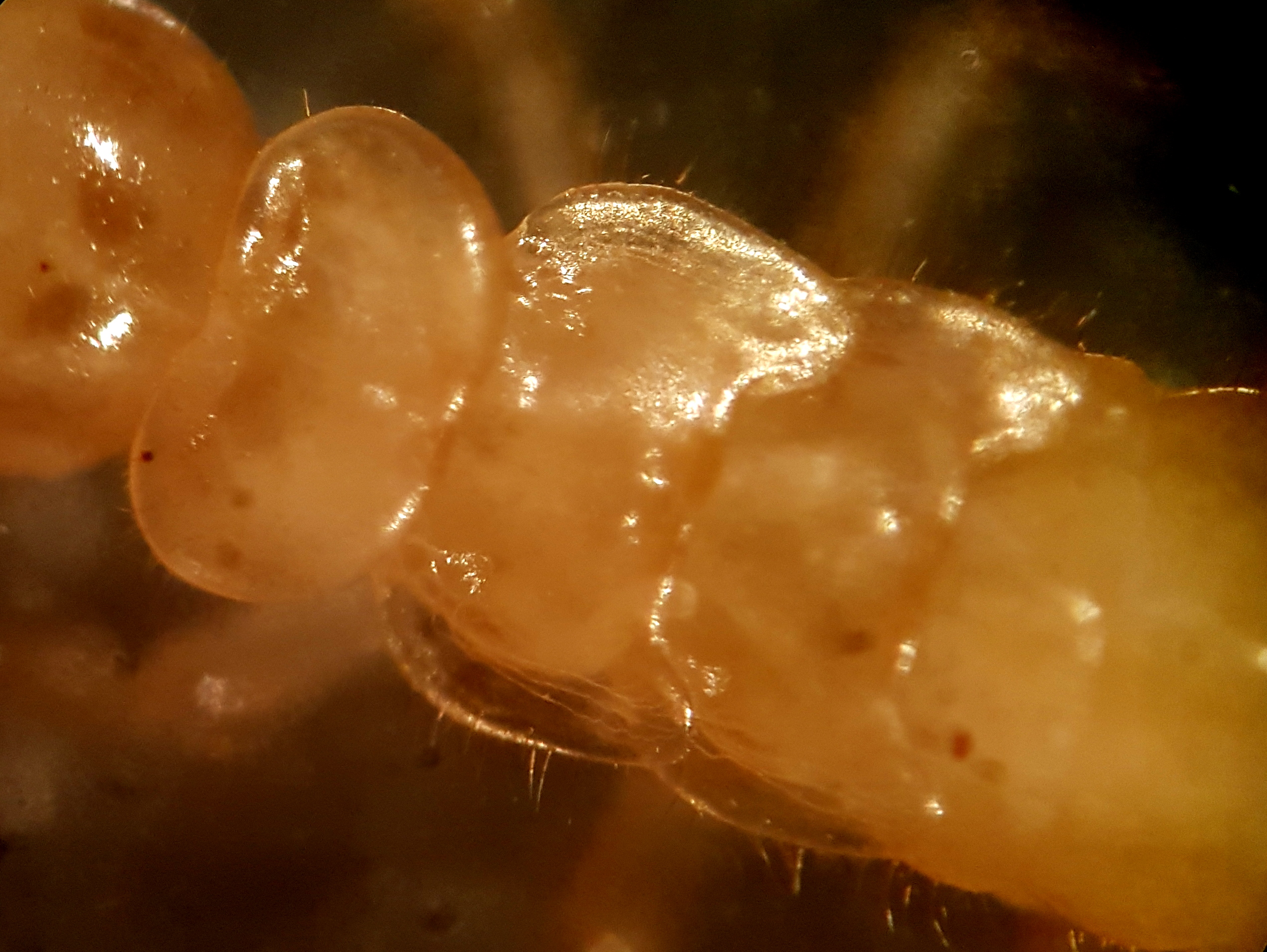 Photographed through a stereo microscope. This individual was part of a captive colony originally collected in France.